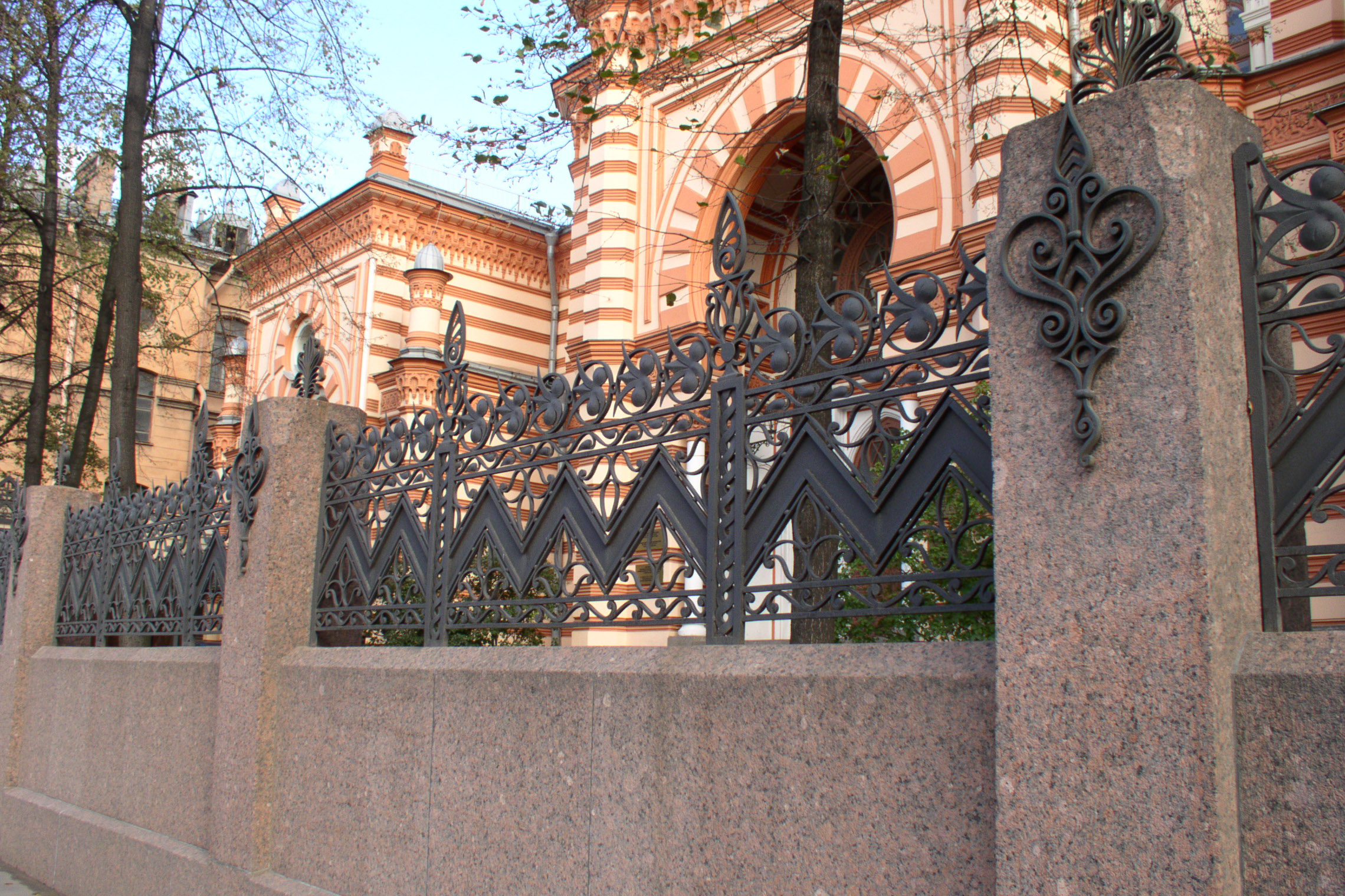 The fence of Saint Petersburg Synagogue. October 11, 2007.